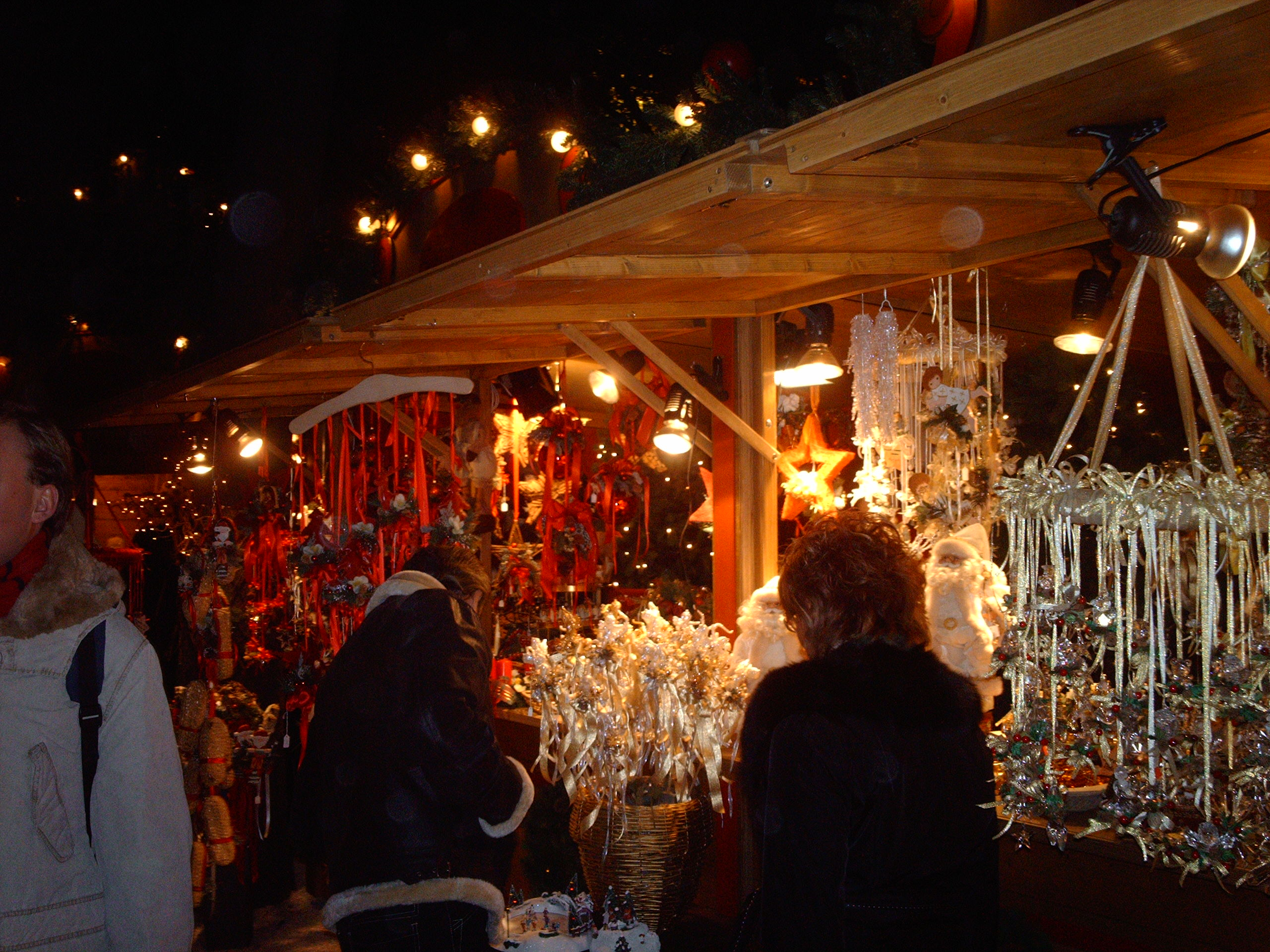 Bolzano/Bozen Winter wood Christmas market (Palazzo Campofranco) 2006